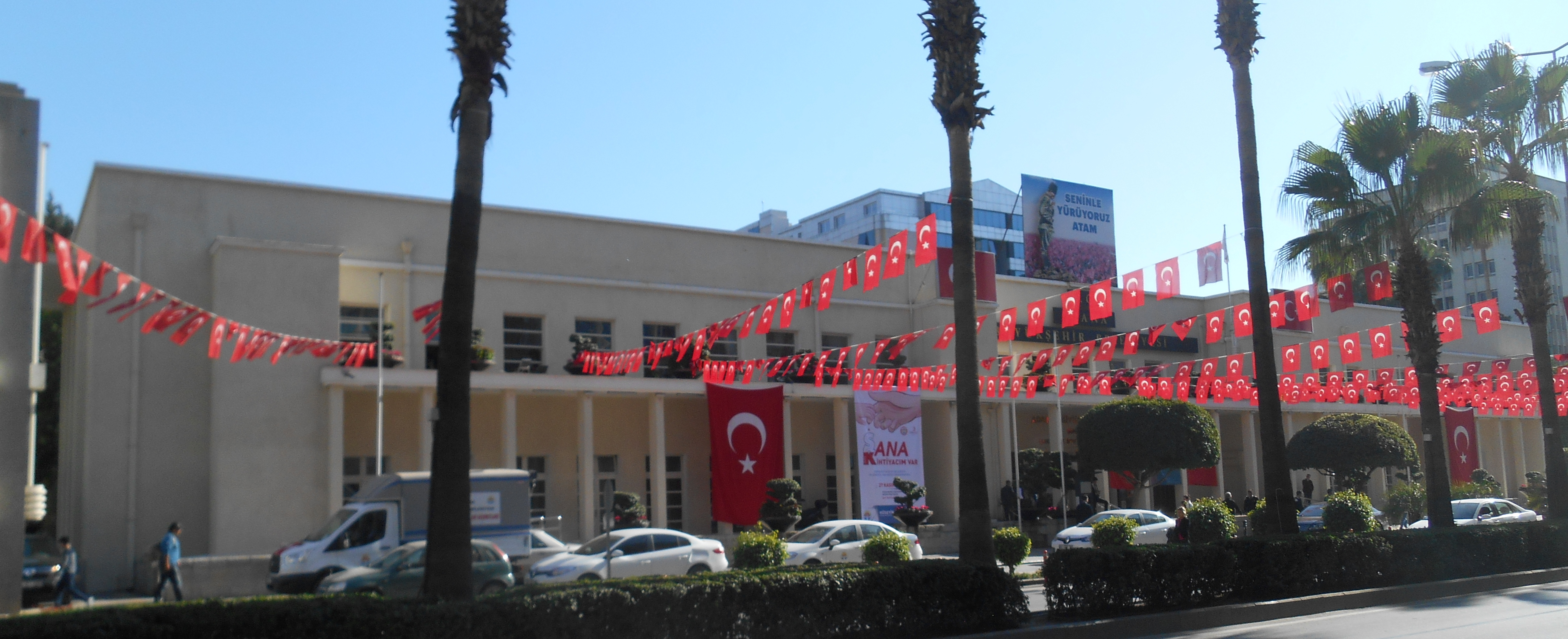 Wide view of the hall